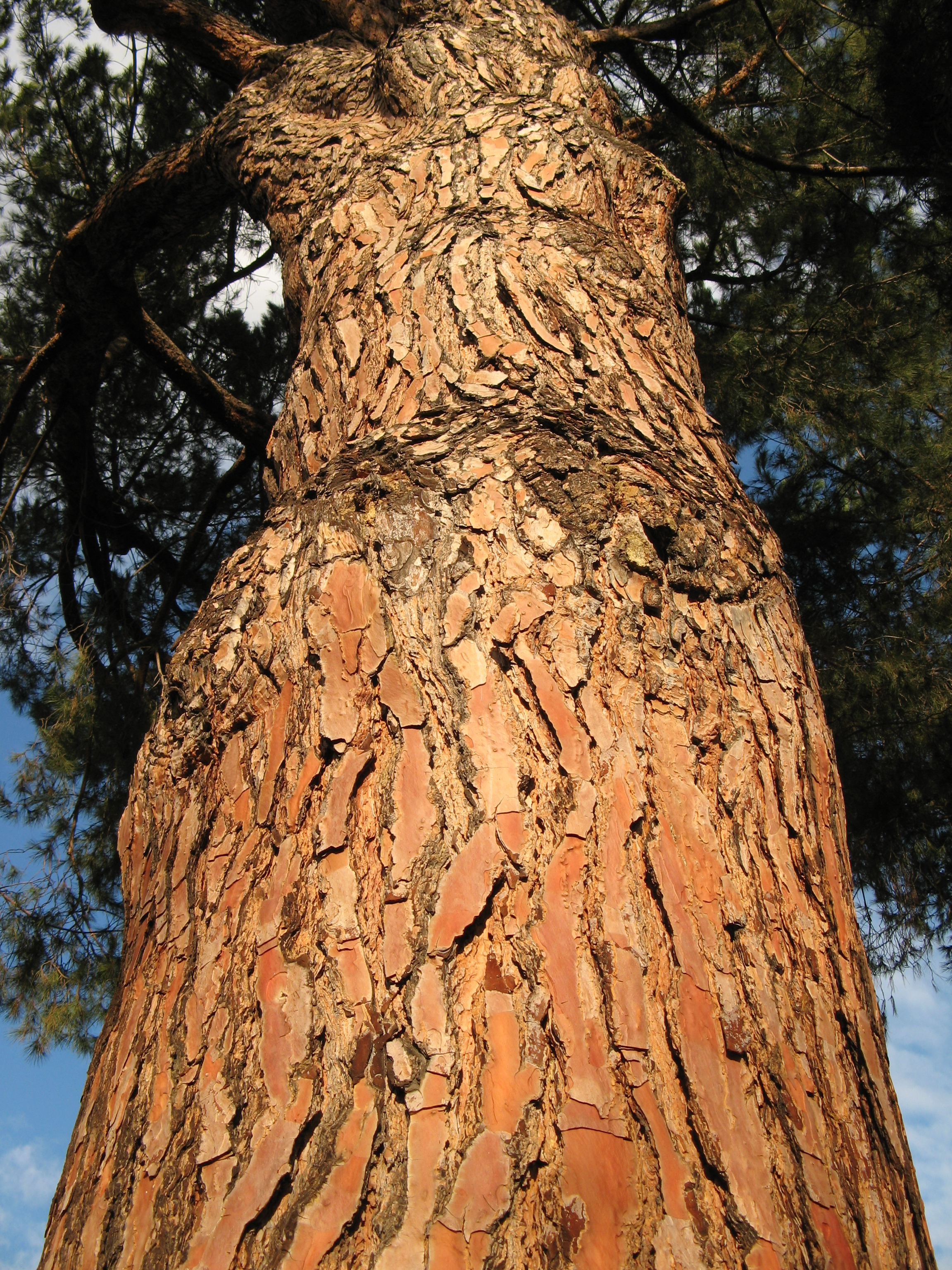 A Stone Pine (Pinus pinea) in Los Angeles County Arboretum and Botanic Garden. Close-up of the bark's vertical texture. Photographed and uploaded by user:Geographer